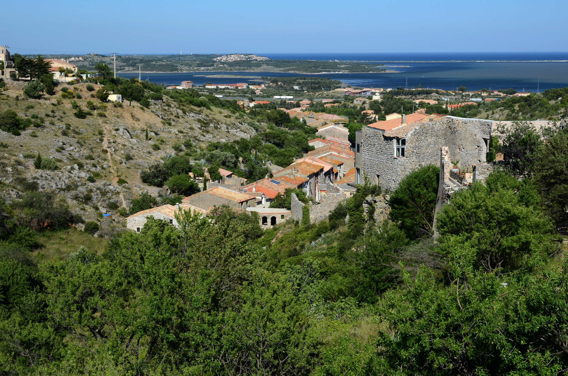 Fitou, opposite in the background Leucate